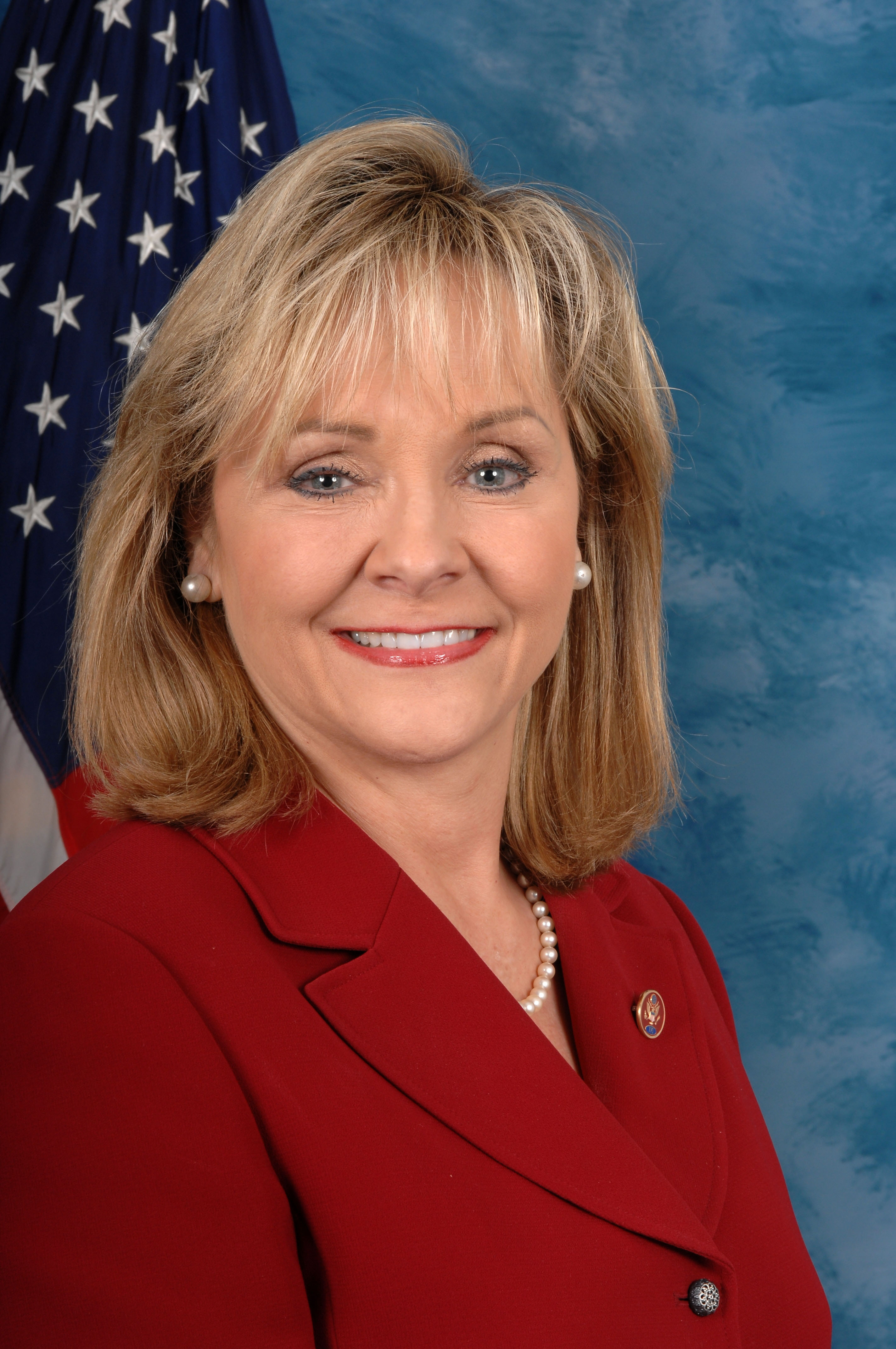 Mary Fallin, Member of the United States House of Representatives.